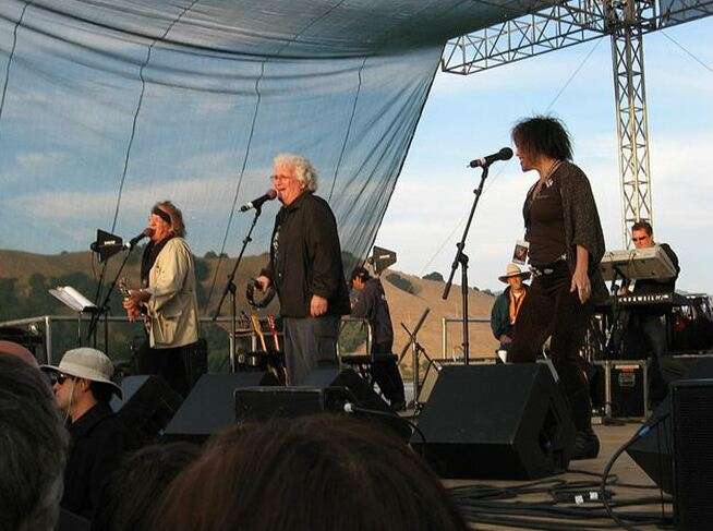 Jefferson Starship at Rock 'n Blues Festival at Stafford Lake.